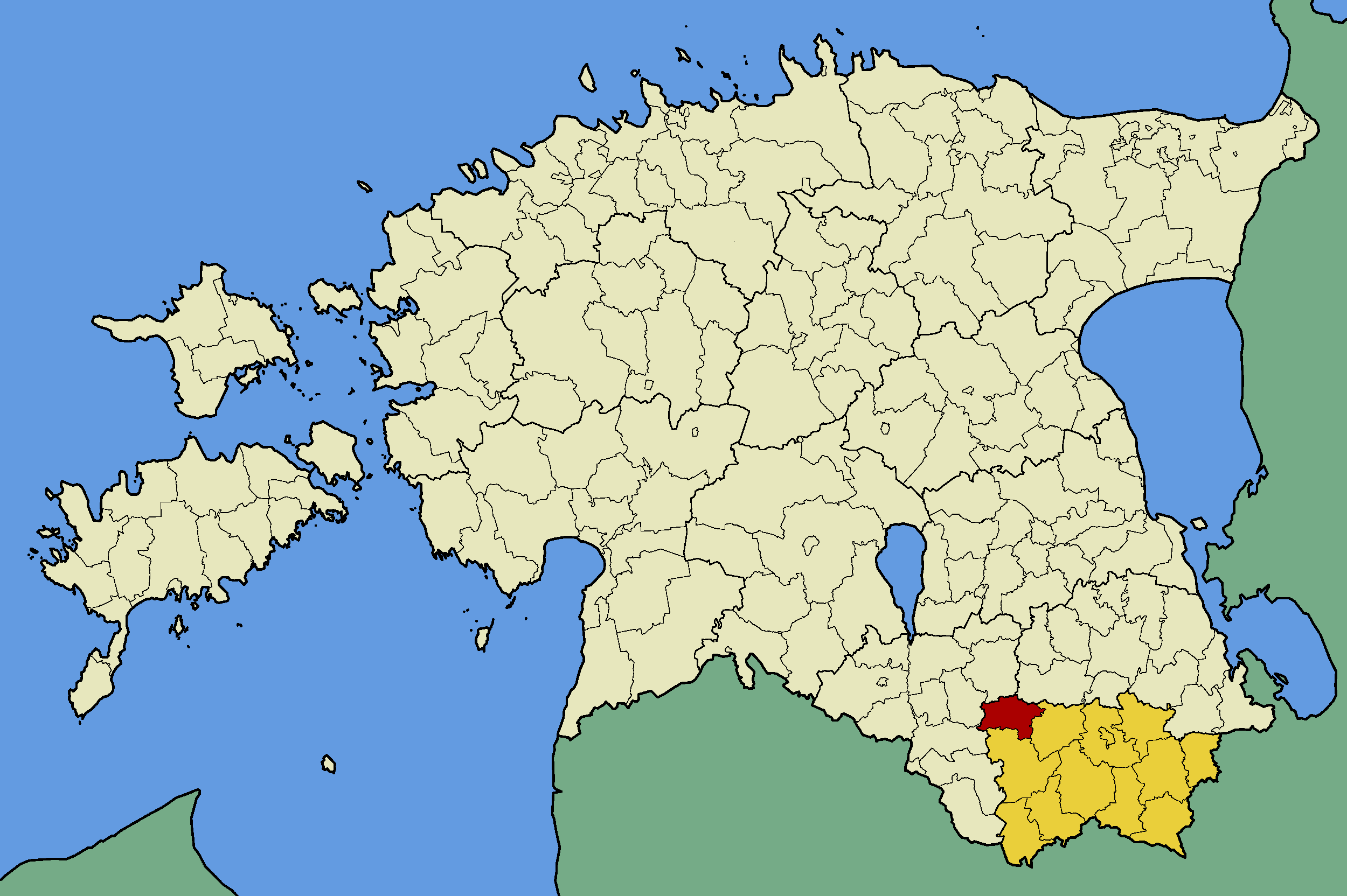 Map of Estonia with borders of municipalities (parishes). Võru county and Urvaste municipality emphasized.